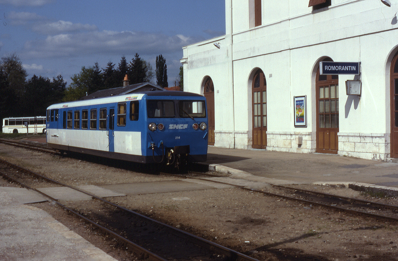 X 214 at Romorantin on 3 May 1992.